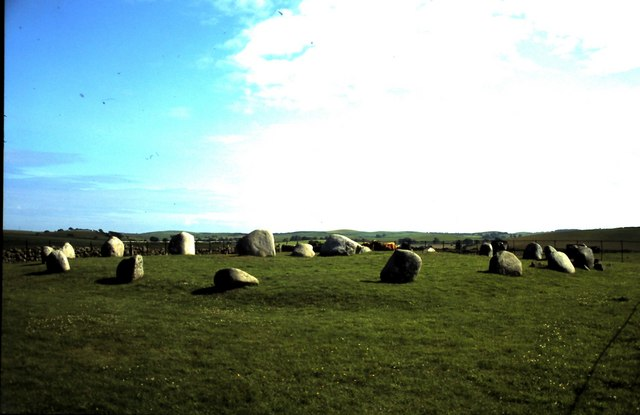 Torehousekie Stone Circle Dating from the 2nd millennium BC, this is one of the best preserved sites in Britain. The circle is approximately 60 feet in diameter and comprises 19 stones up to 5 feet high. In 1684 it was called, 'King Galdus's tomb'.